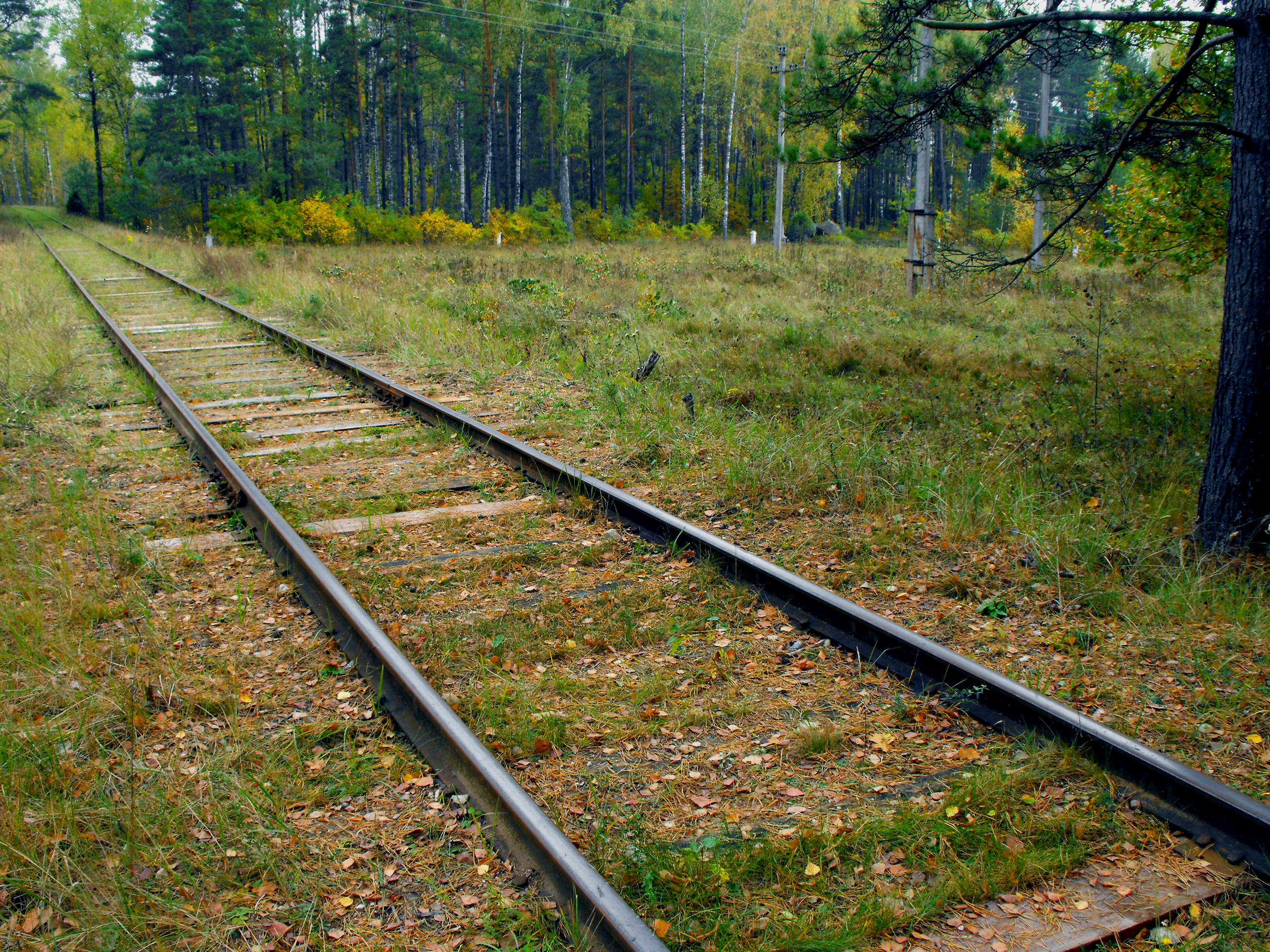 Bronna Góra (or Bronna Mount in English, Belarusian: Бронная гара) was a secluded location of mass killings of Polish Jews in the eastern territory of occupied Poland during World War II. The area was invaded by the Soviet Union in 1939, and captured by the Wehrmacht two years later in Operation Barbarossa of 1941. It is estimated that from May 1942 till November of that same year, during the most deadly phase of the Holocaust in Poland, some 50,000 Jews: men, women and children were murdered there over execution pits.